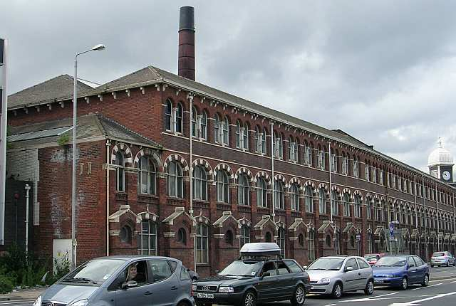 Alf Cooke's Packaging Factory - Hunslet Road This is now in the process of conversion.